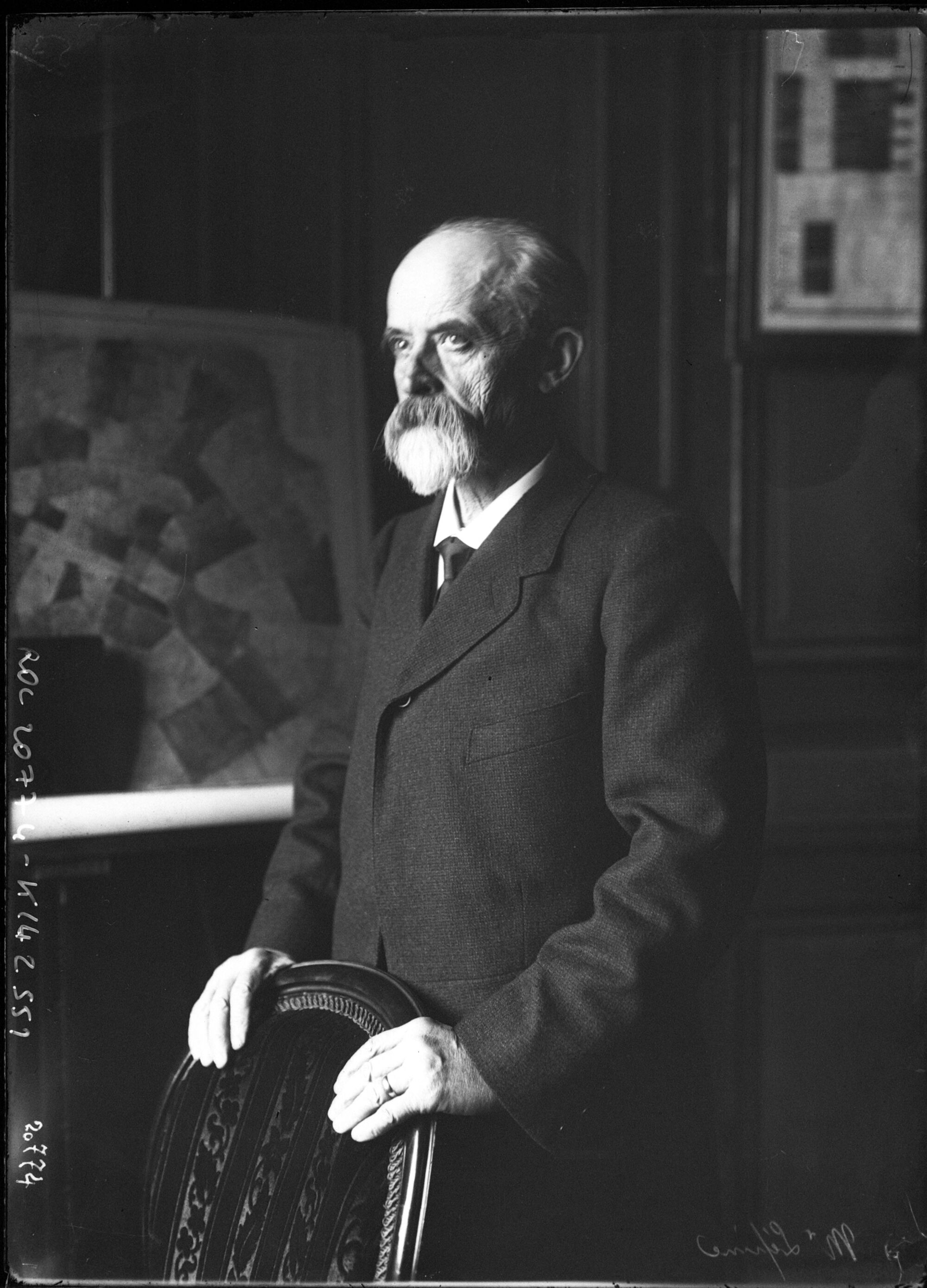 French politician, administrator and inventor Louis Lépine (1846-1933)